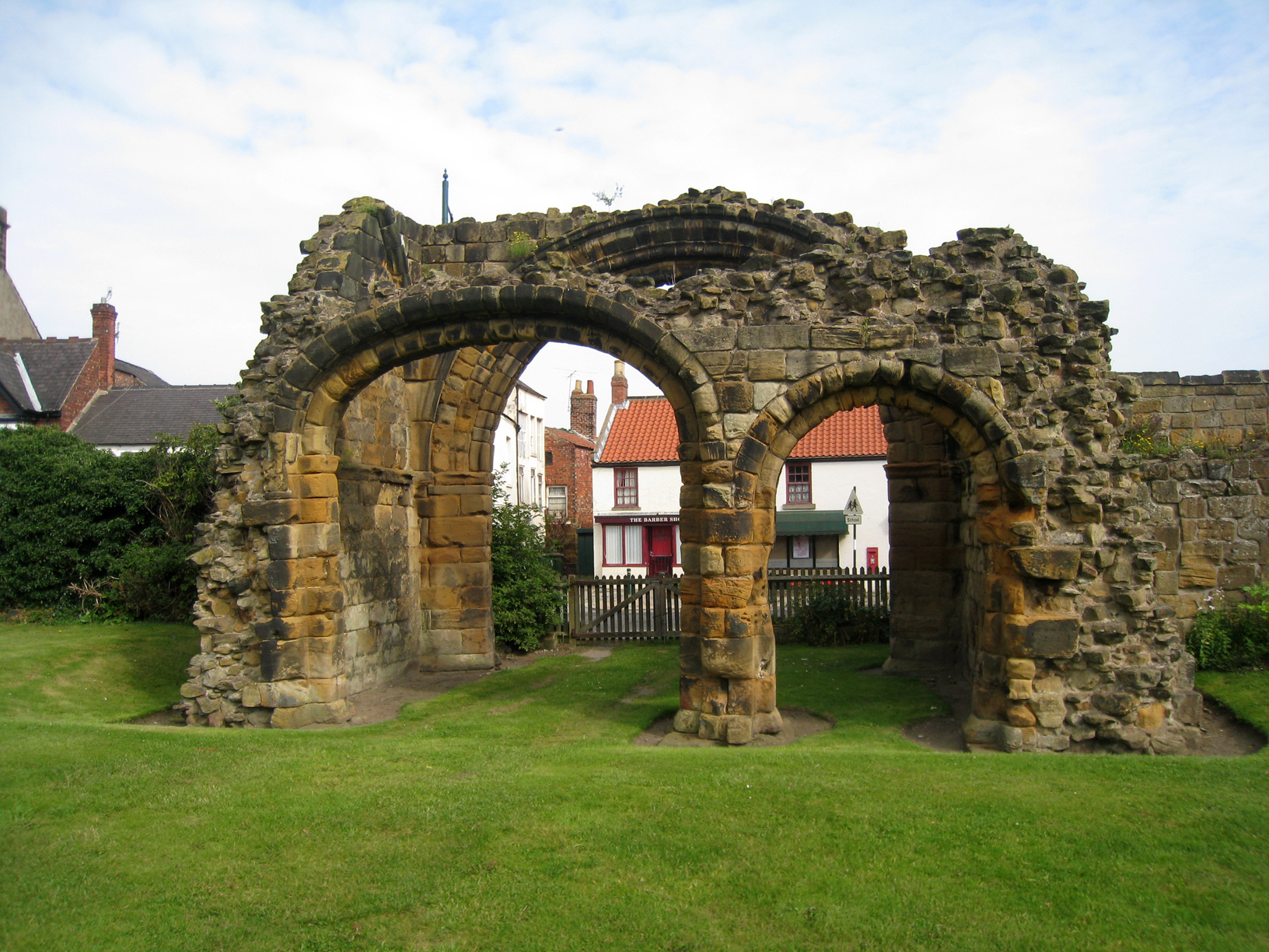 Ruins of the gateway at Gisborough Priory